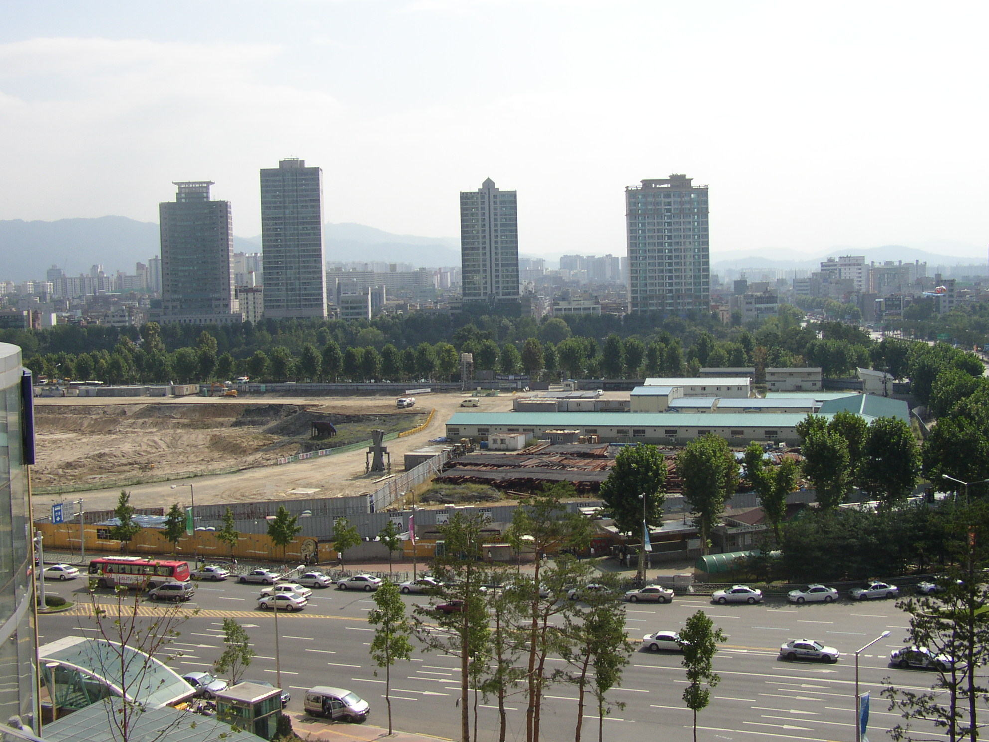 Site of Lotte World 2 at Seoul